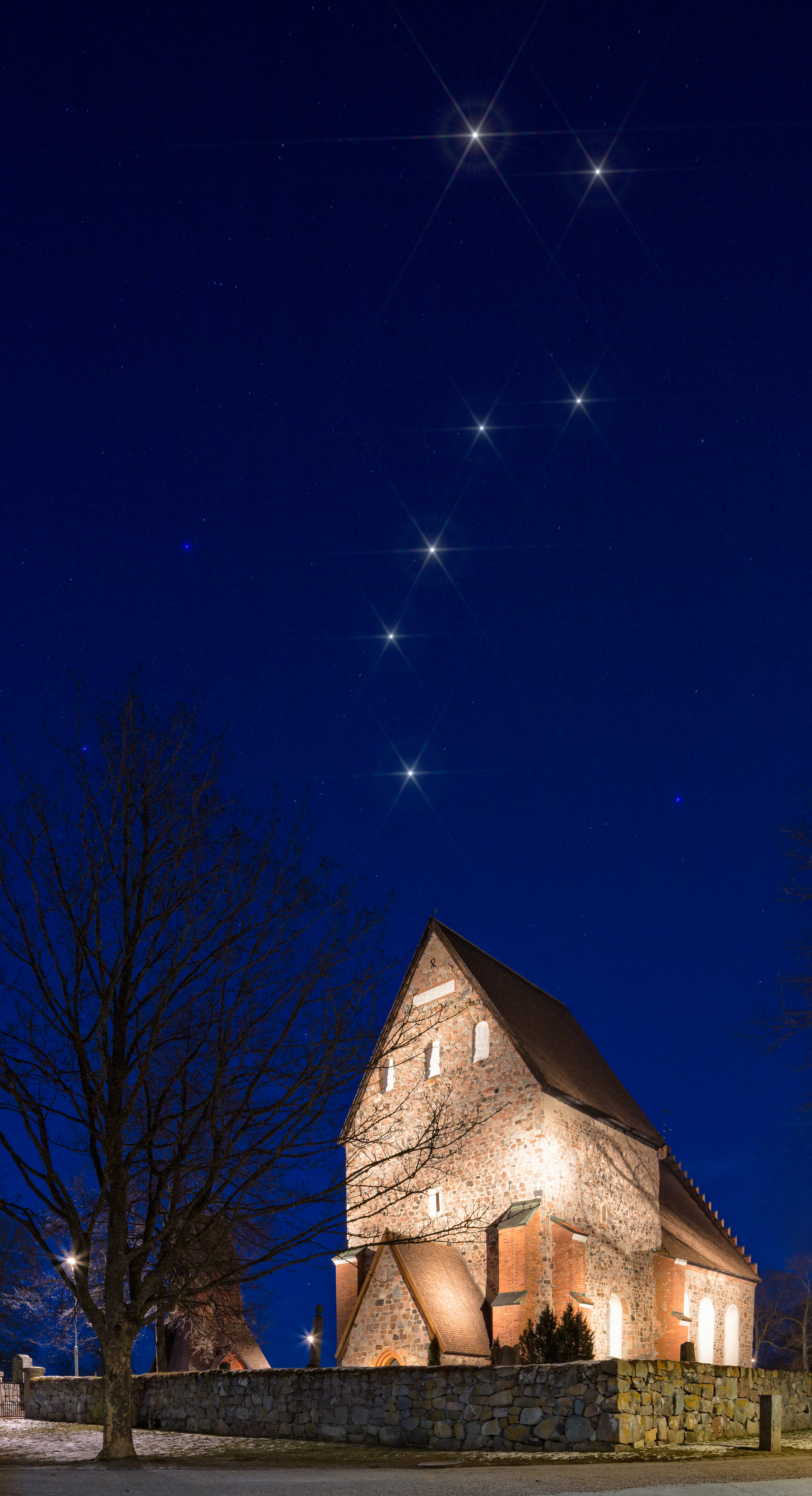 Gamla Uppsala kyrka (Gamla Uppsala 74:2) The Big Dipper over the Old Uppsala church (Gamla Uppsala kyrka). Panorama stitch picture. This is a retouched picture, which means that it has been digitally altered from its original version. Modifications: The Diffraction spikes and glow of the stars belonging to the Ursa Major obviously have been added digitally..